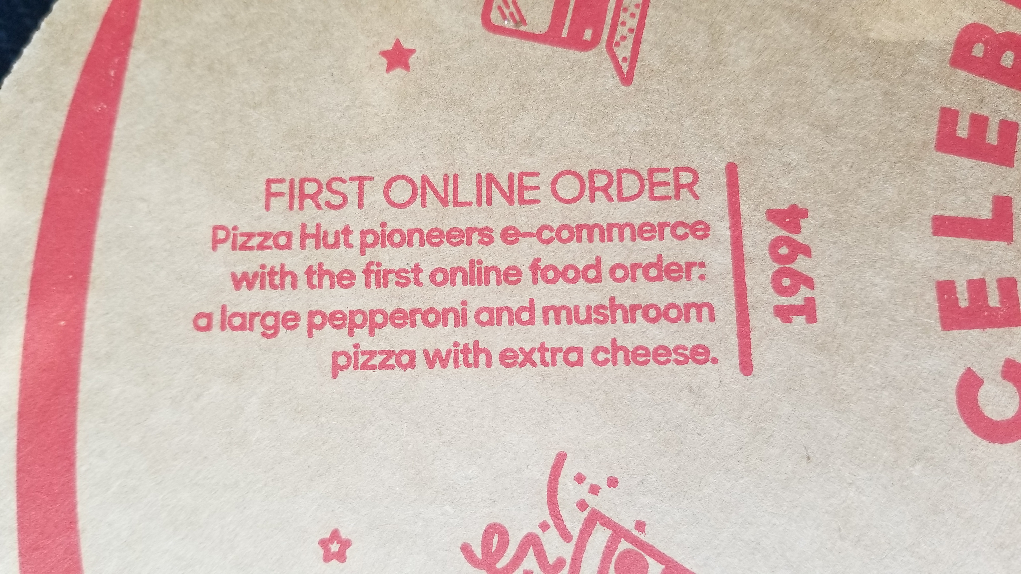 This is a picture from a 2018 Pizza Hut pizza box, which describes the first online food sale.